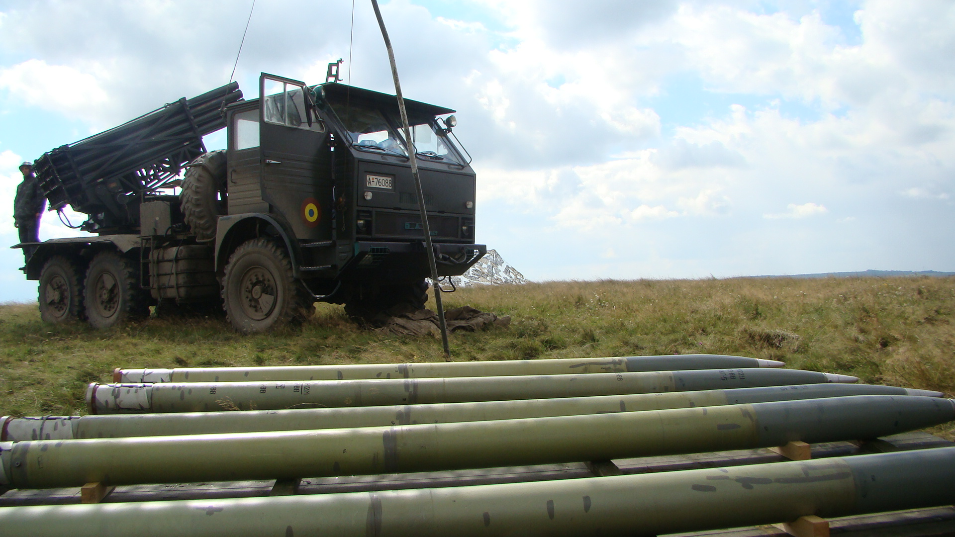 APR-40 from the 69th Mixed Artillery Regiment during a military exercise.